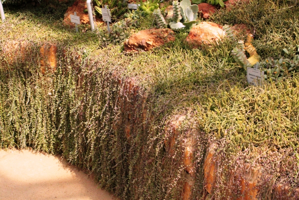 Senecio radicans. Edible indigenous succulent groundcover. Kirstenbosch botanical gardens. Cape Town.